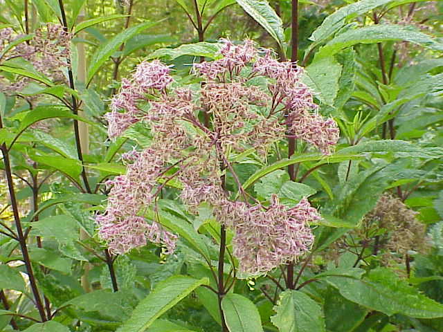 Species: Eupatorium purpureum Family: Asteraceae Image No. 2